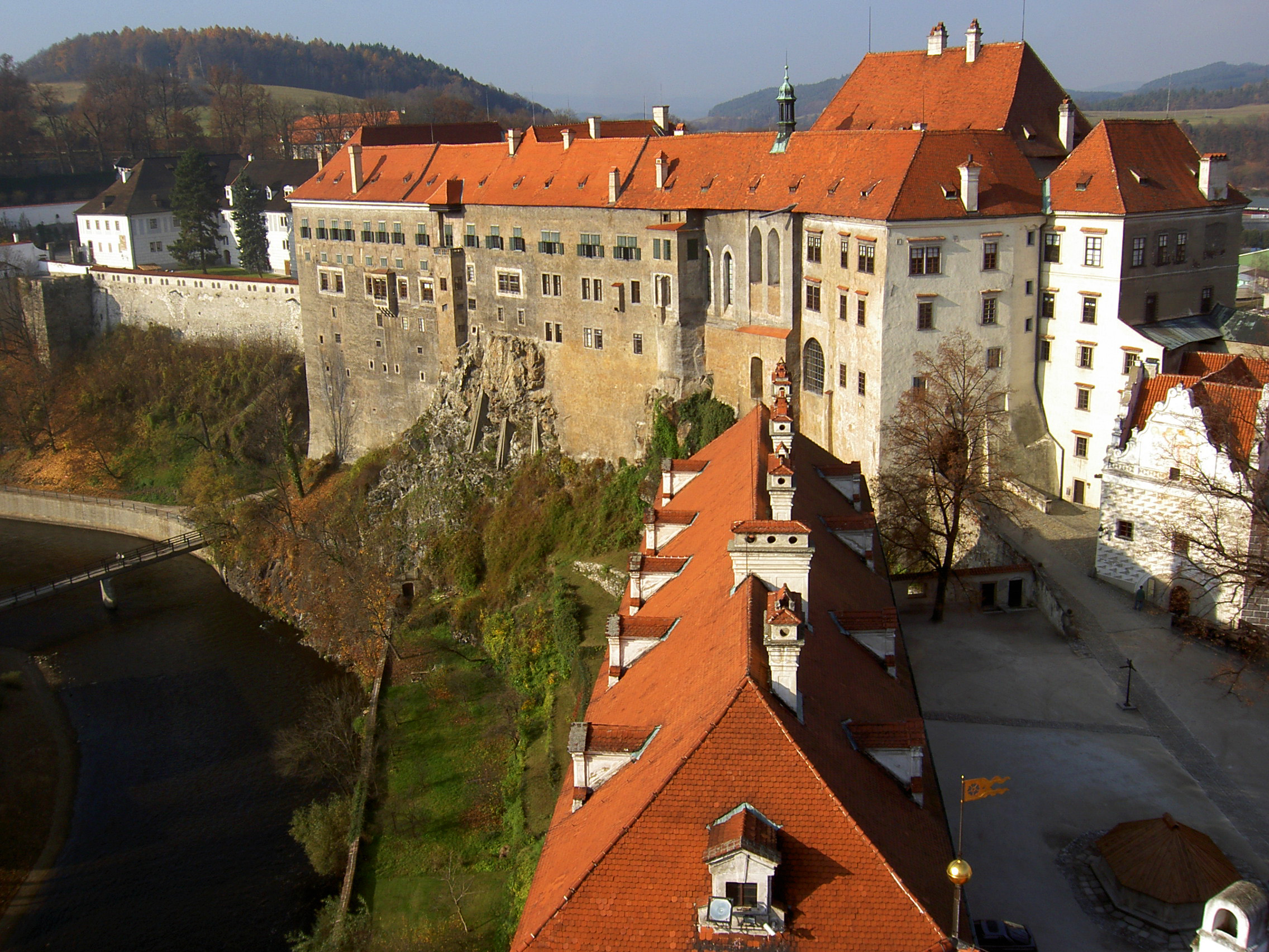 Castle in Český Krumlov, Czech Republic. Upper Castle as seen over roof of the Mint from Castle tower.